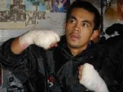 I made this shot in Cebu City on June 26, 2007